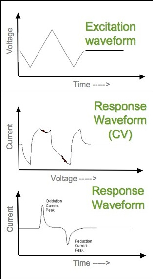 Applied and response waveform in fast cyclic voltammetry